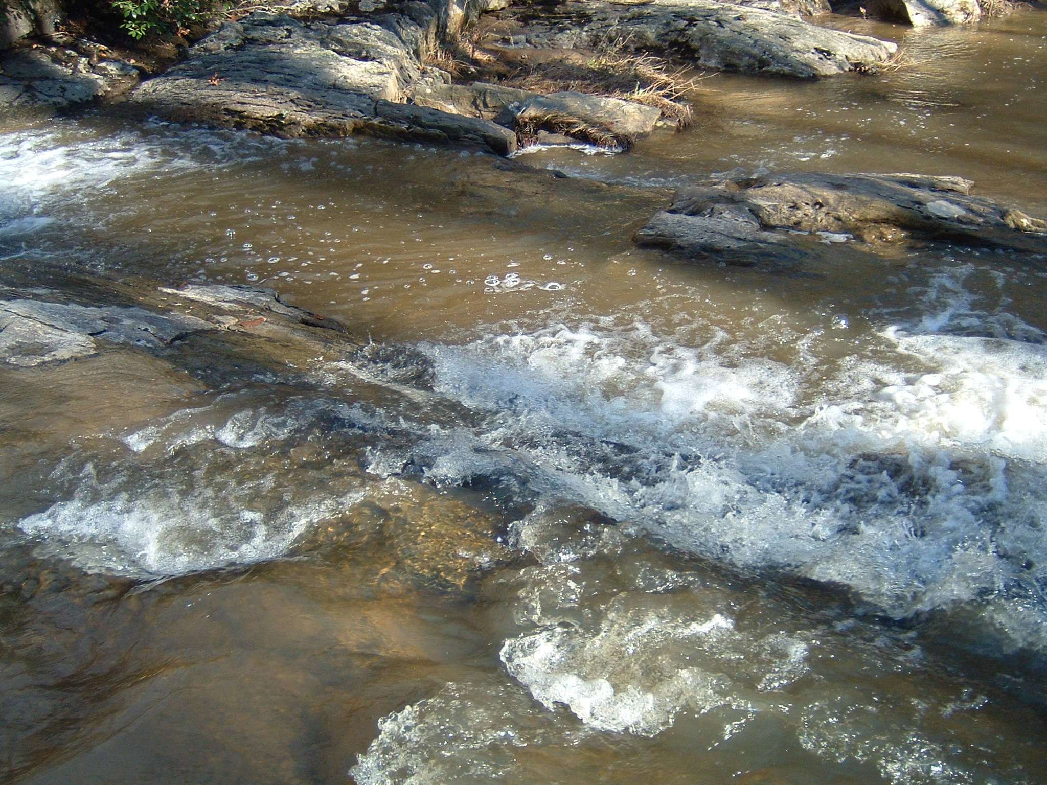 Quantico Falls in Prince William Forest Park in Prince William County, Virginia, as seen from the Quantico Falls Trail.